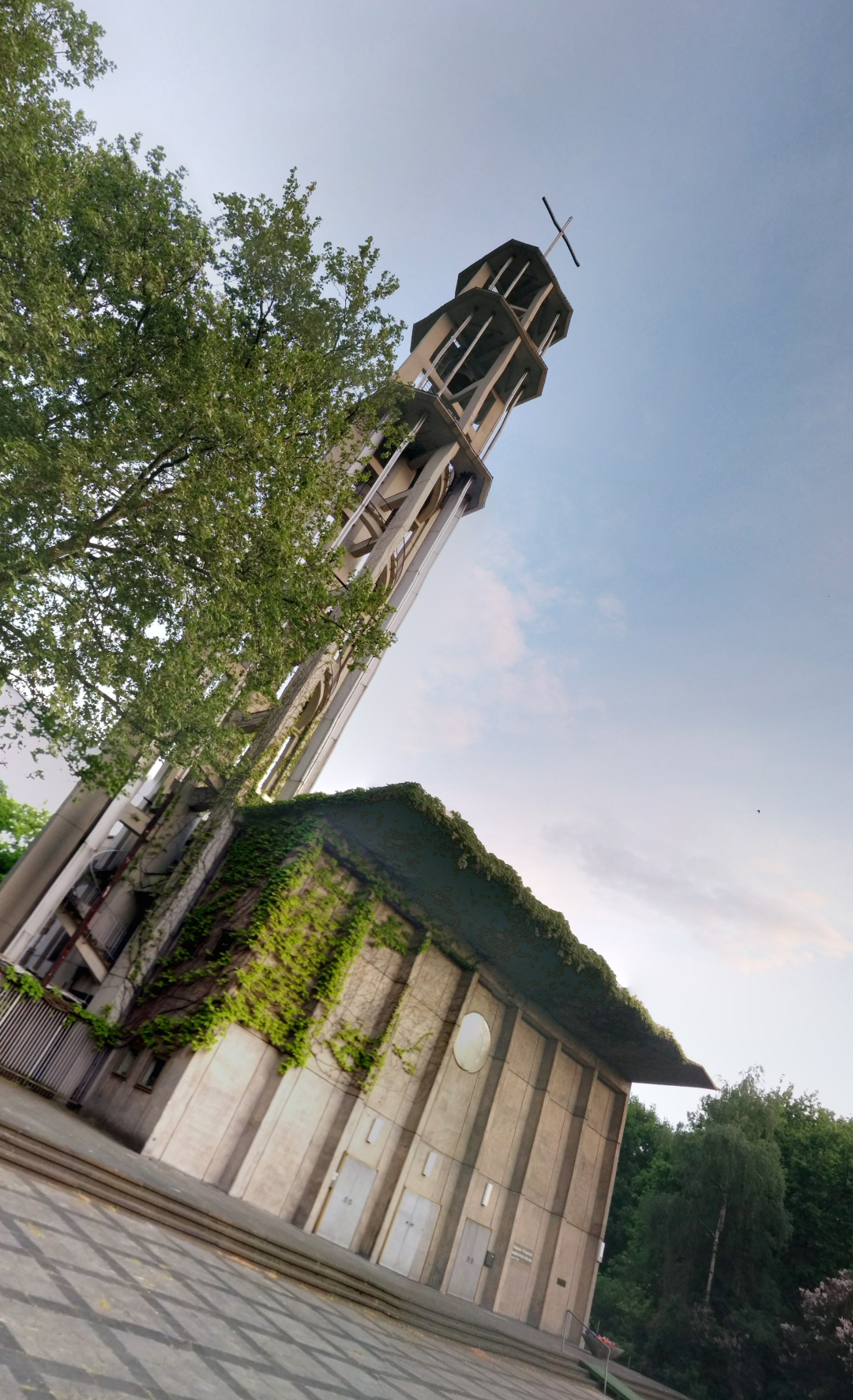 The Fascade of the Second Kaiser-Friedrich-Gedächtniskirche in Berlin